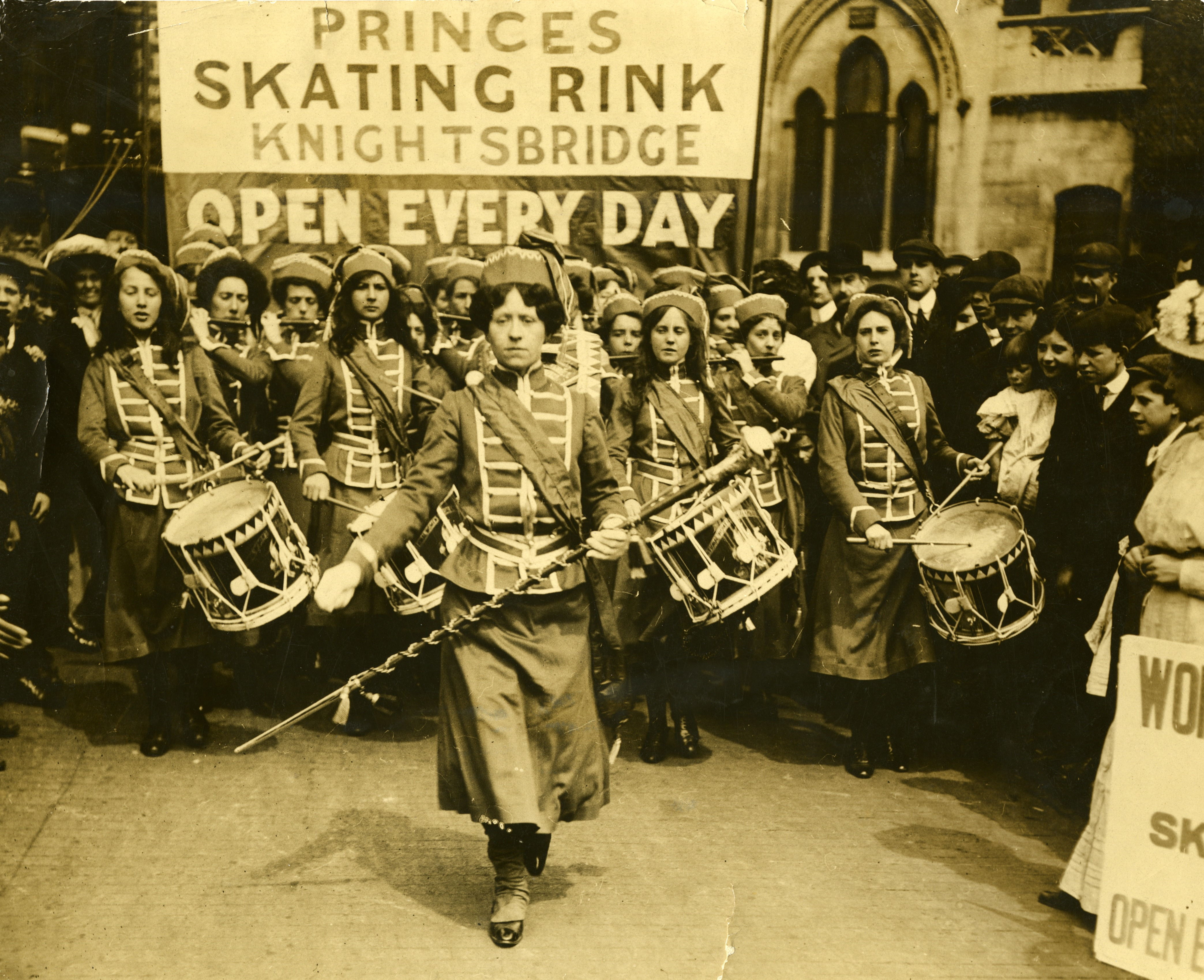 7JCC/O/02/021Photograph, printed, paper, monochrome, drum and fife band marching with a banner 'PRINCES SKATING RINK KNIGHTSBRIDGE: OPEN EVERY DAY', led by Mary Leigh; on reverse: typed caption, manuscript inscription 'Copy for Mrs May', and printed 'Copyright: World's Graphic Press Limited, 36-38 Whitefriars Street, Fleet Street, London EC. Please Acknowledge'